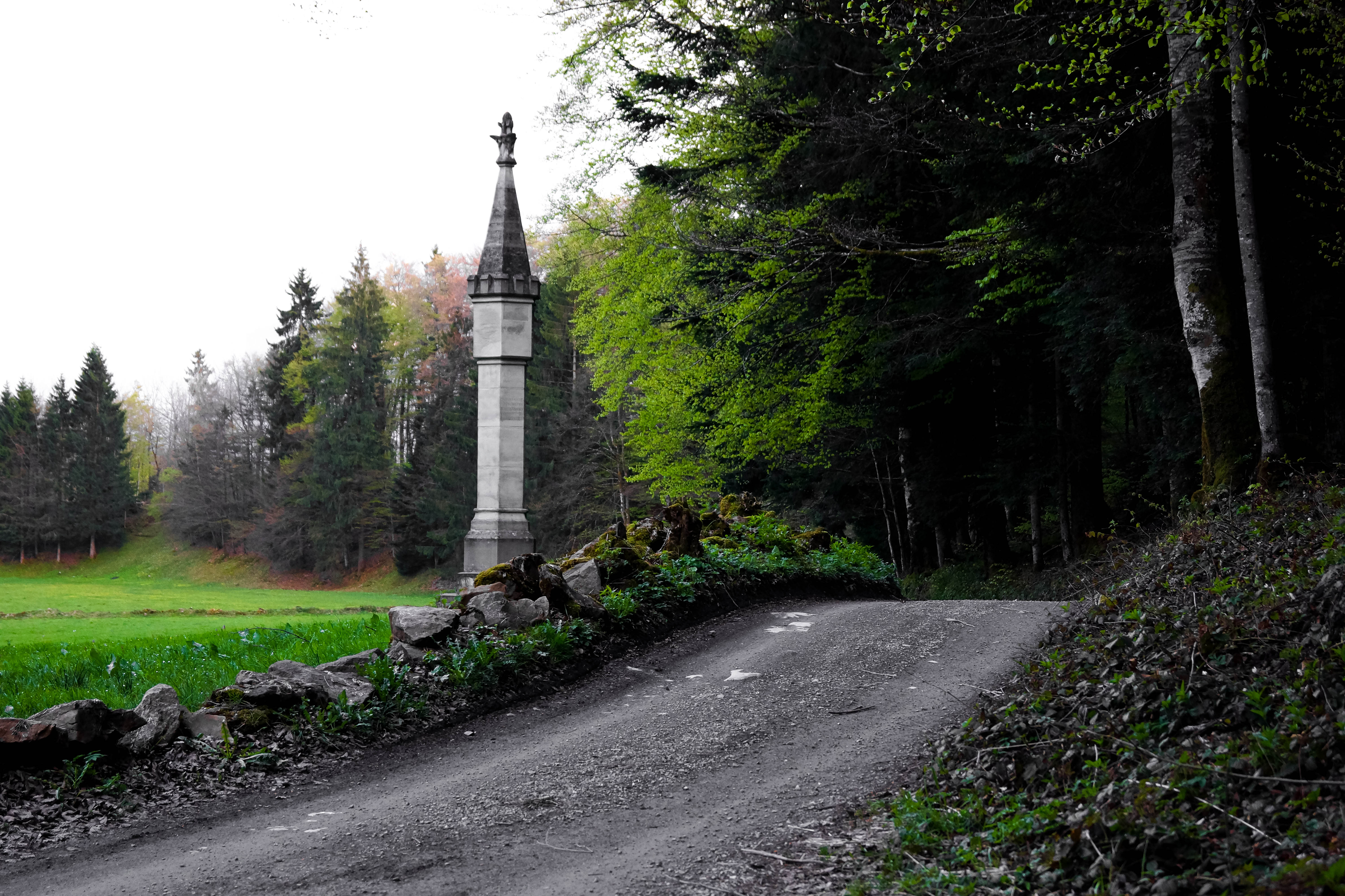 Bezegg-Sul